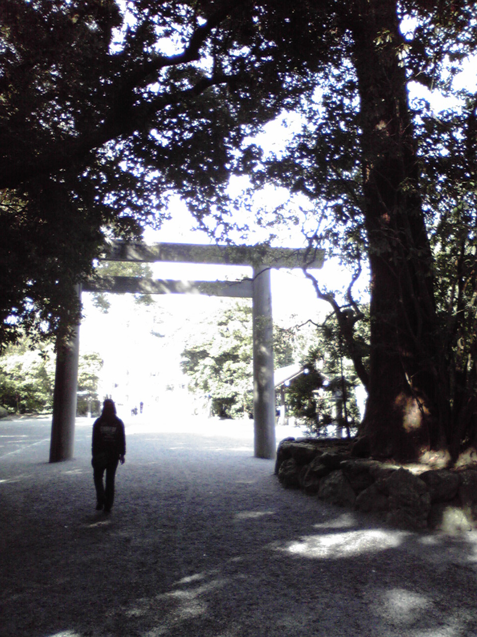 This is an entrance of Geku (Ise Grand Shrine).